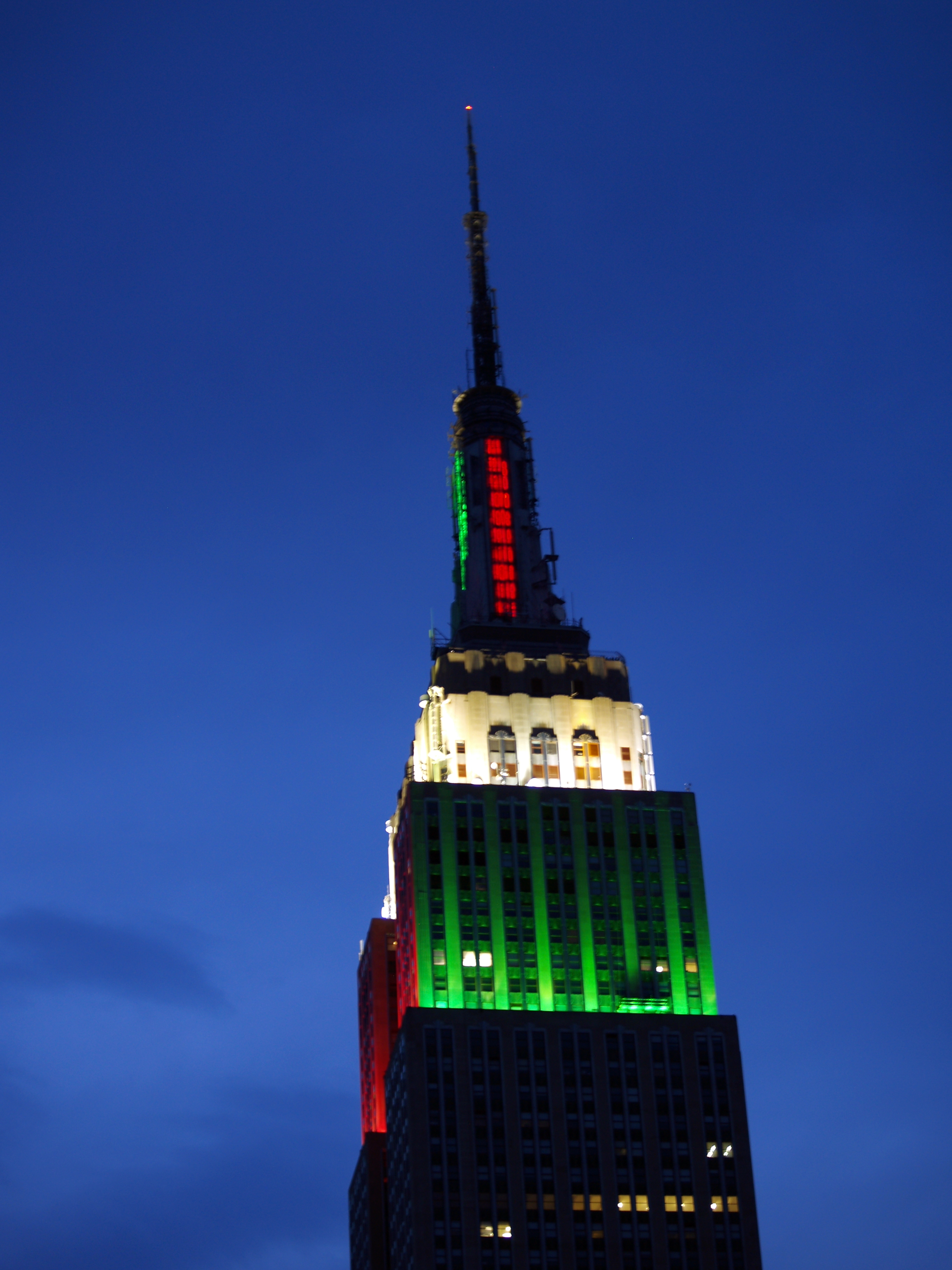 Empire State Building lit up red and green.